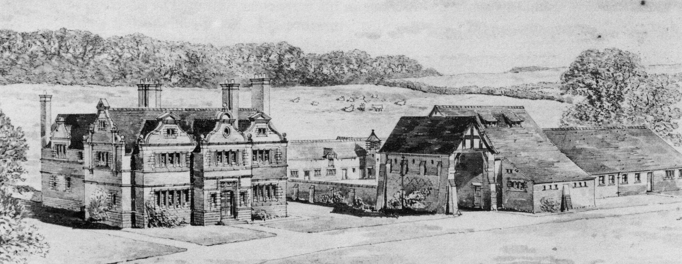 A drawing of Wrexham Road Farm engraved for Building News, Vol 54 (1888) p.838. Scanned and enhanced by me.